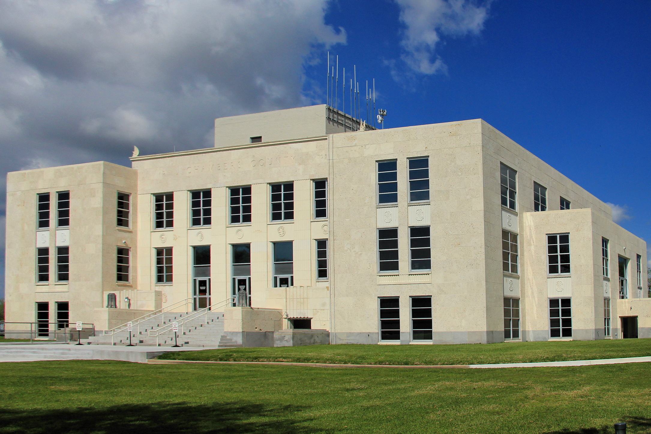 The Chambers County Courthouse in Anahuac, Texas, United States. The limestone courthouse was listed on the National Register of Historic Places on April 25, 2008.